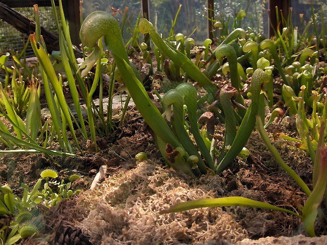 Species Darlingtonia californica Family Sarraceniaceae